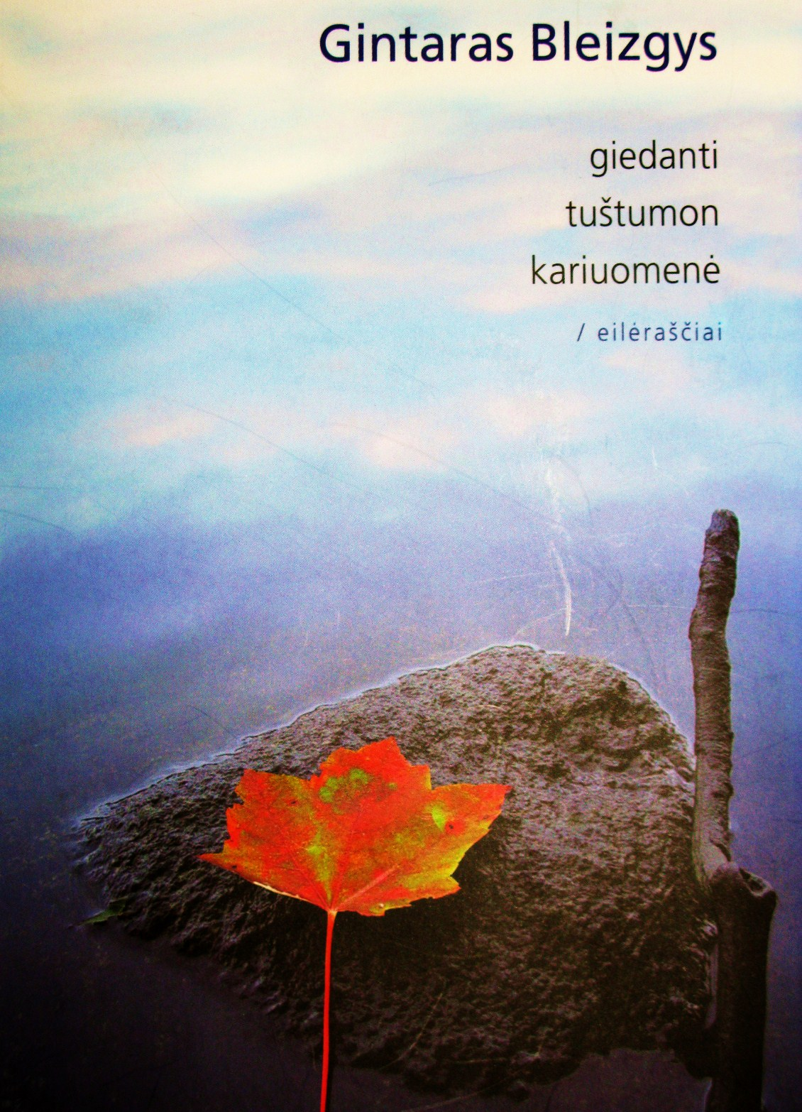 Gintaro Bleizgio poezijos rinkinys "Giedanti tuštumon kariuomenė"